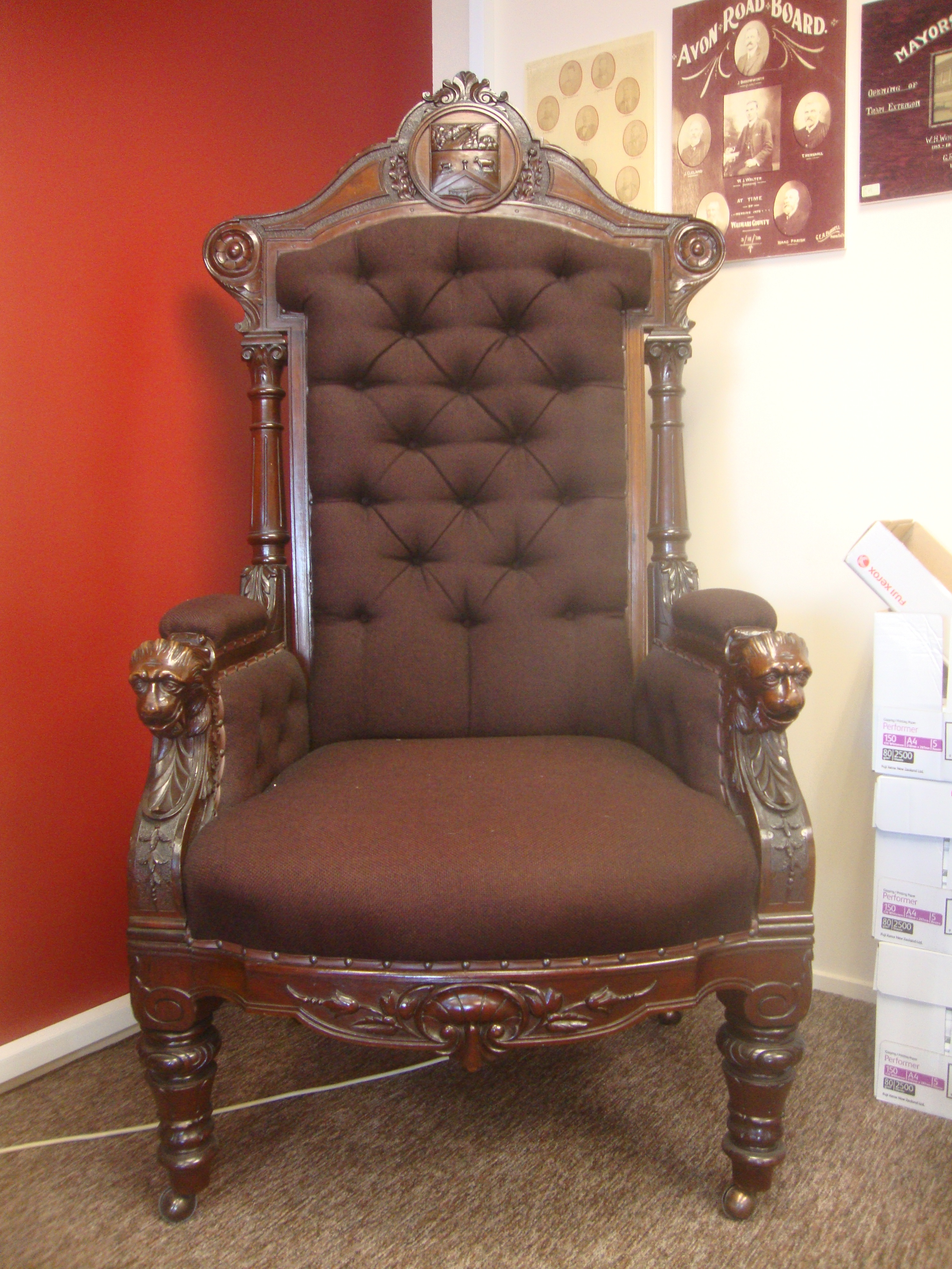 Christchurch City Council mayor's chair. Upholstered armchair, back with deep diamond buttoned upholstery. Photo taken at Christchurch City Council archives.